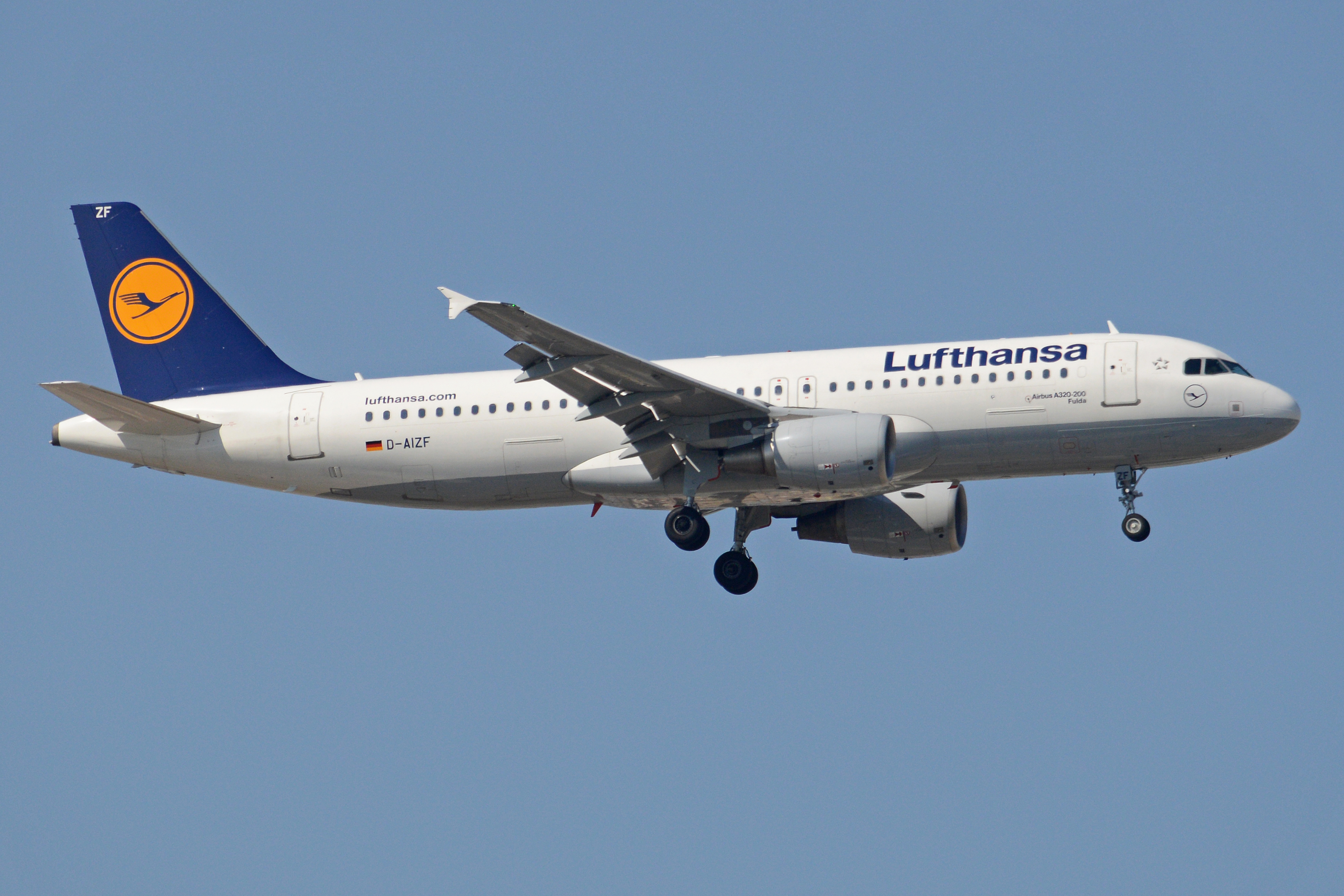 c/n 4289. Built 2010. Arriving on flight LH1800/01J from Munich. Madrid Bajaras Airport, Spain. 21st May 2016